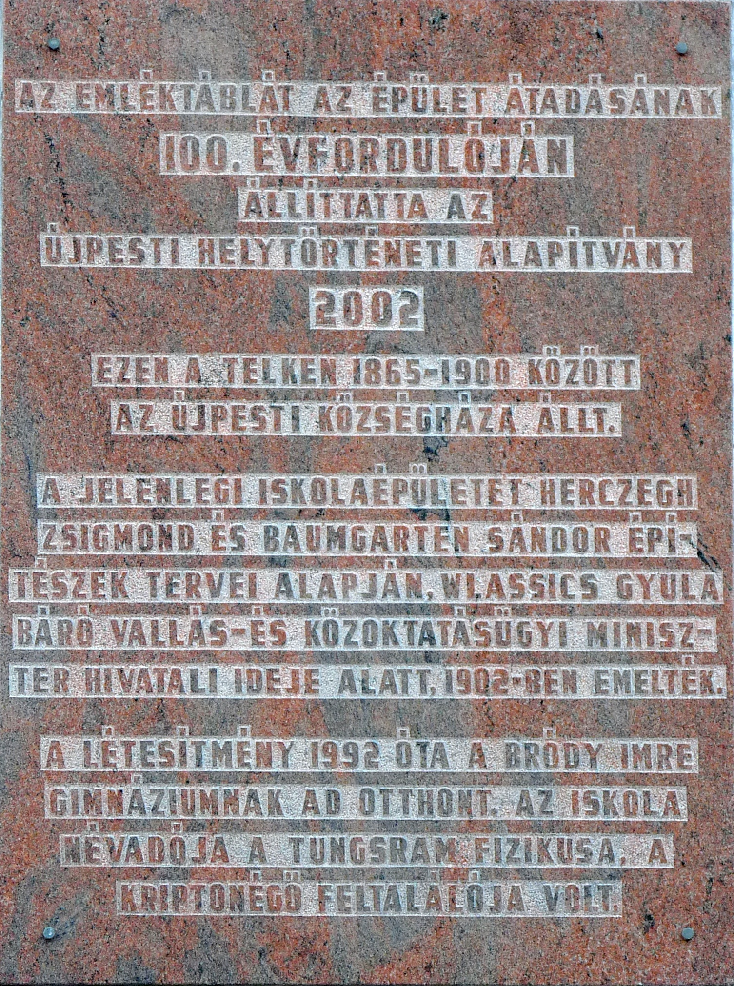 Imre Bródy commemorative plaque in Budapest District IV, Attila Street No 10.